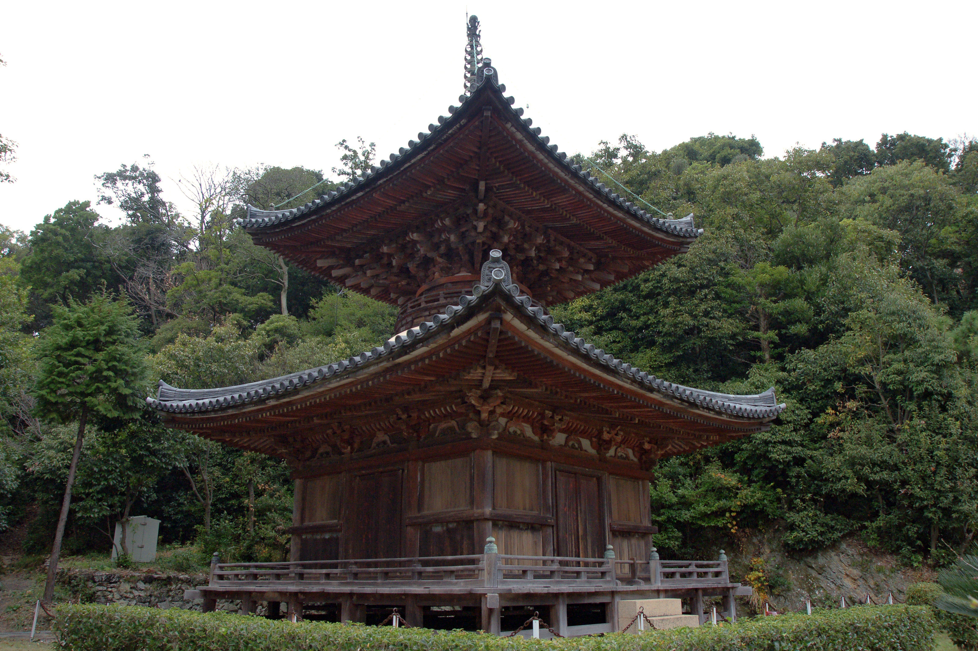 Jomyoji, Arida, Wakayama prefecture, Japan